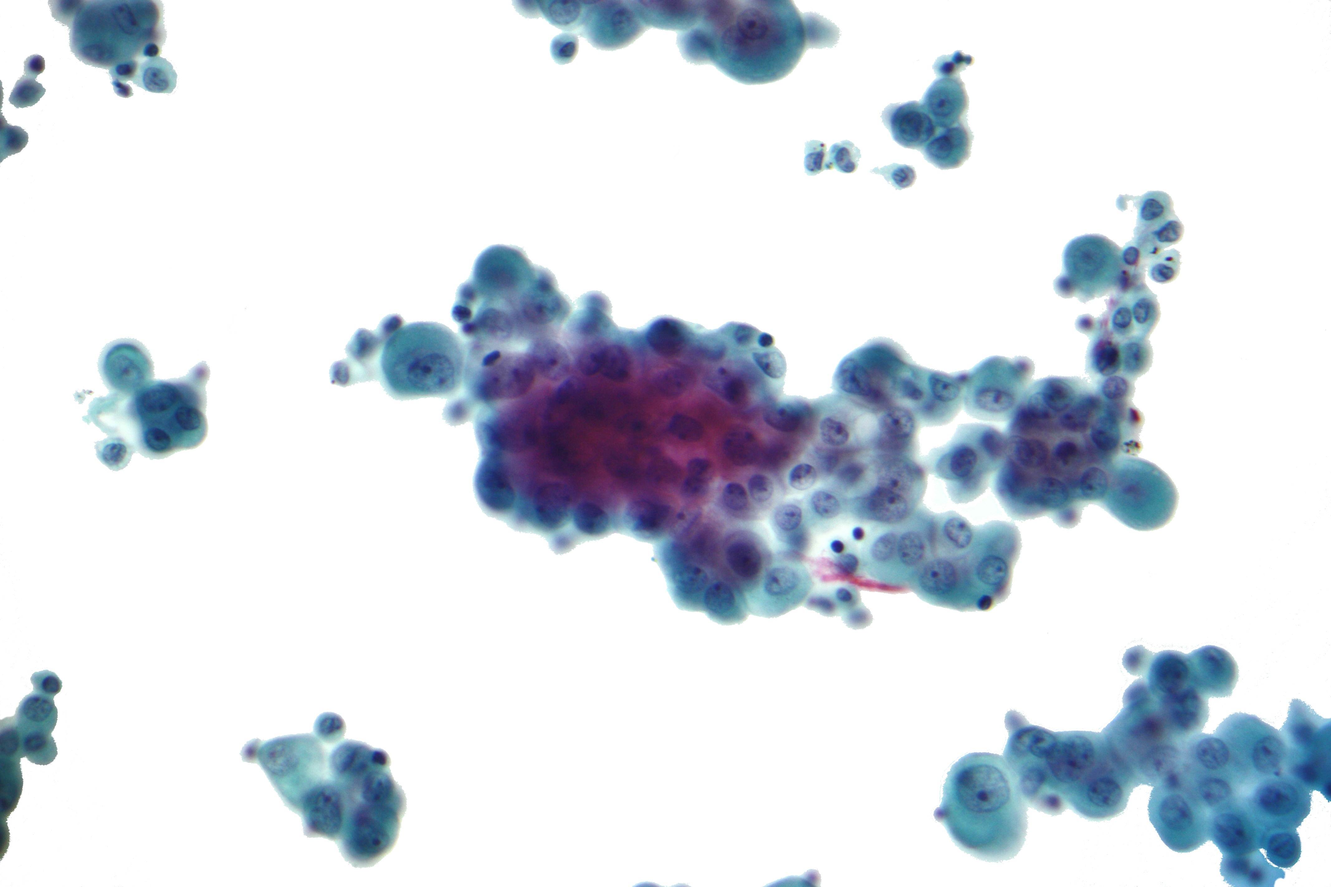 Micrograph of malignant mesothelioma, also mesothelioma. Cytopathology specimen - pleural fluid. The image shows the features of mesothelioma: Nuclear membrane irregularies. 3-D clusters of more than 10 cells with "knobby" borders. Large NC ratio (focal). Occasional gigantic cells. Macronucleoli. Multiple nucleoli. Related images Same field different plane of focus.